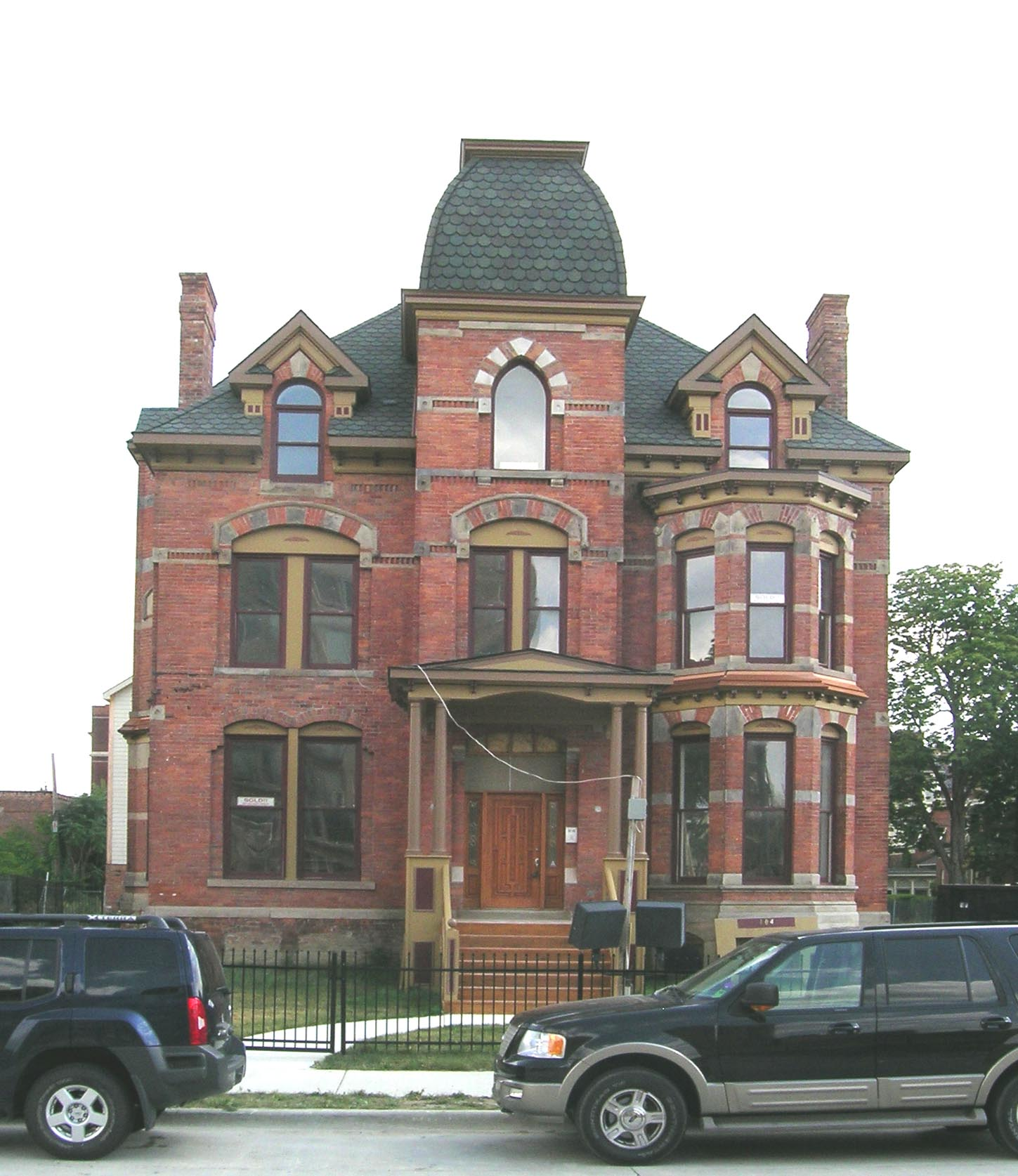 Lucien Moore House at 104 Edmund Place in Brush Park, Detroit. Built in 1885 restored in 2005.